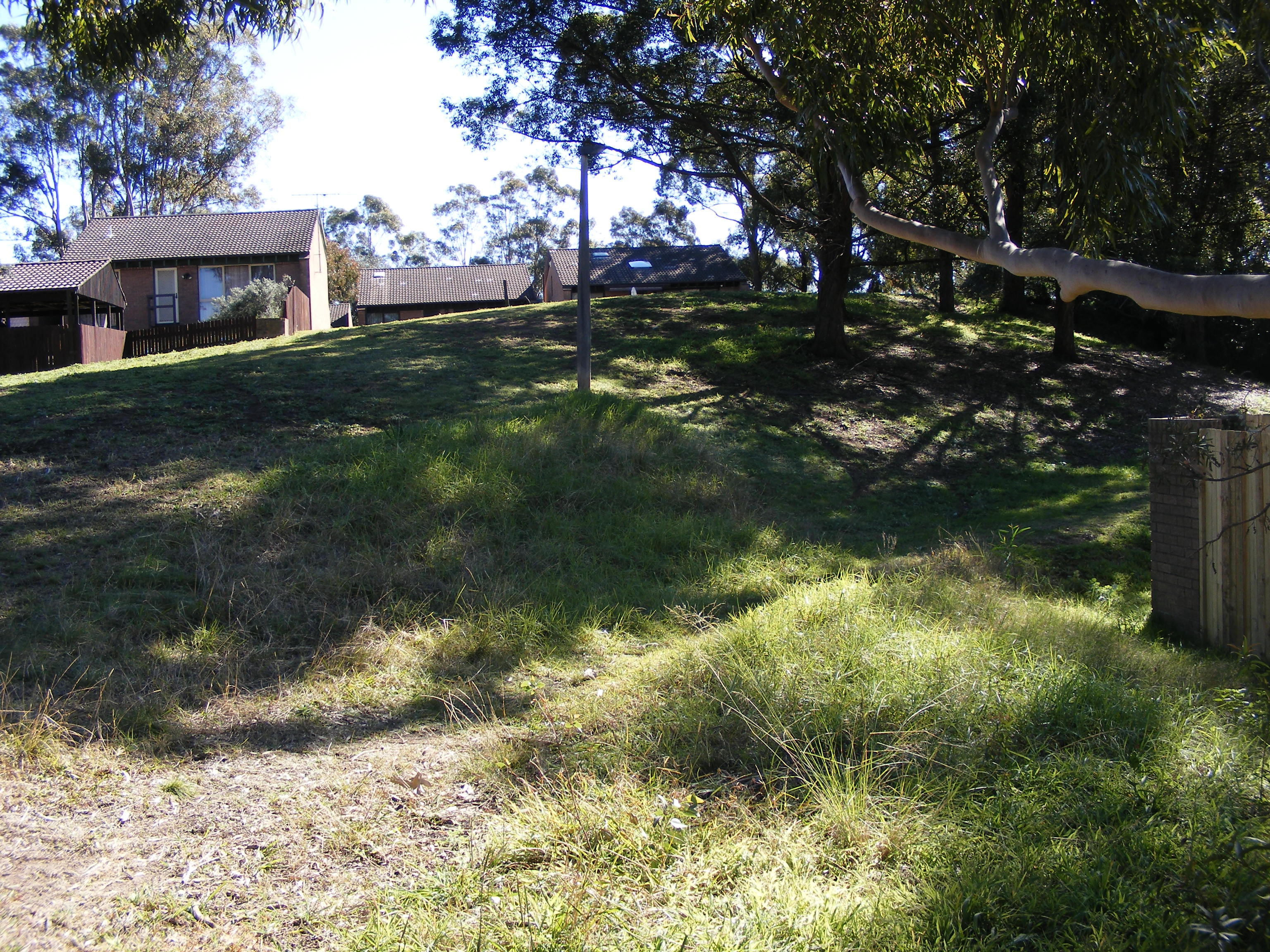 Housing development in Condell park. The Bankstown Bunker, a 3 story underground air force base that was used during World War 2 is still located under this site.